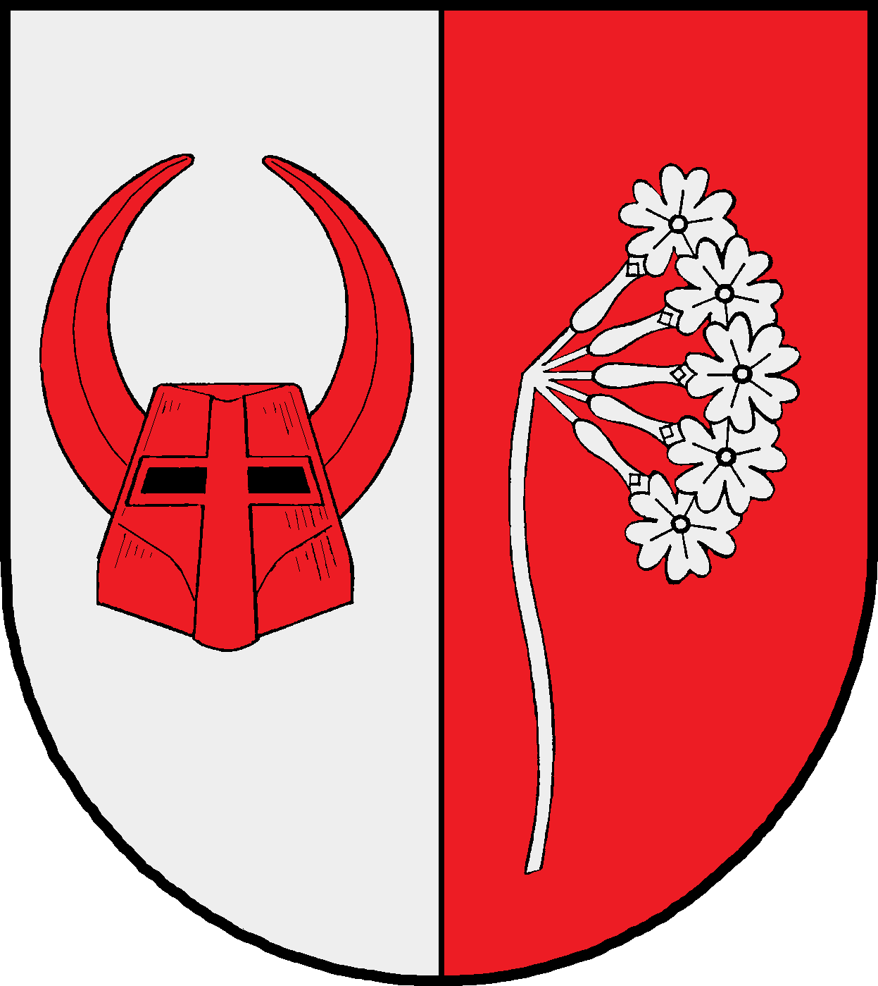 Coat of arms of the municipality Rantzau in Schleswig-Holstein, Germany.